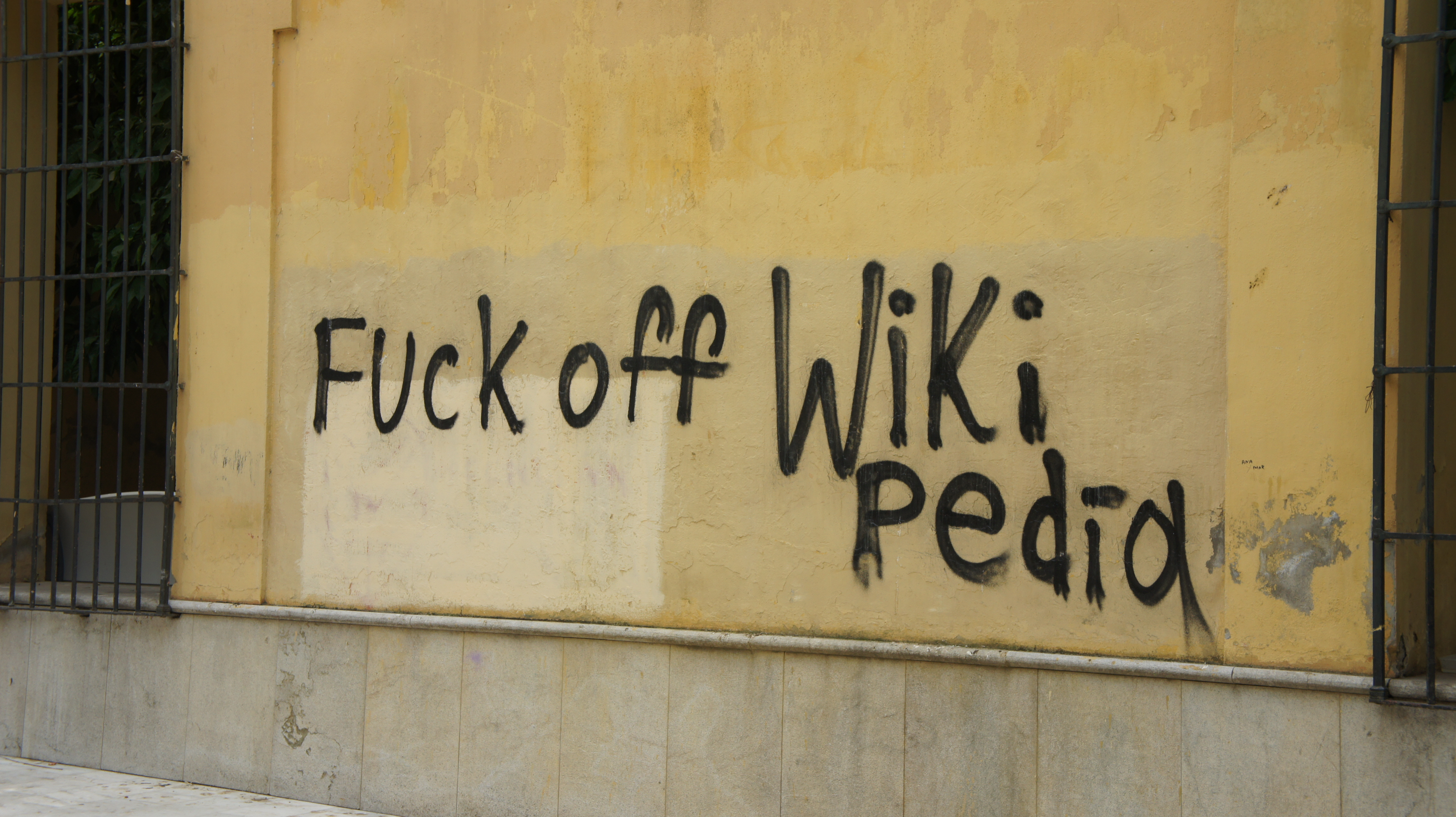 Graffiti on a street in Granada